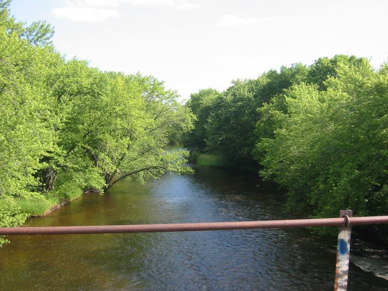 The Rum River flows past the west side of Milaca, Minnesota